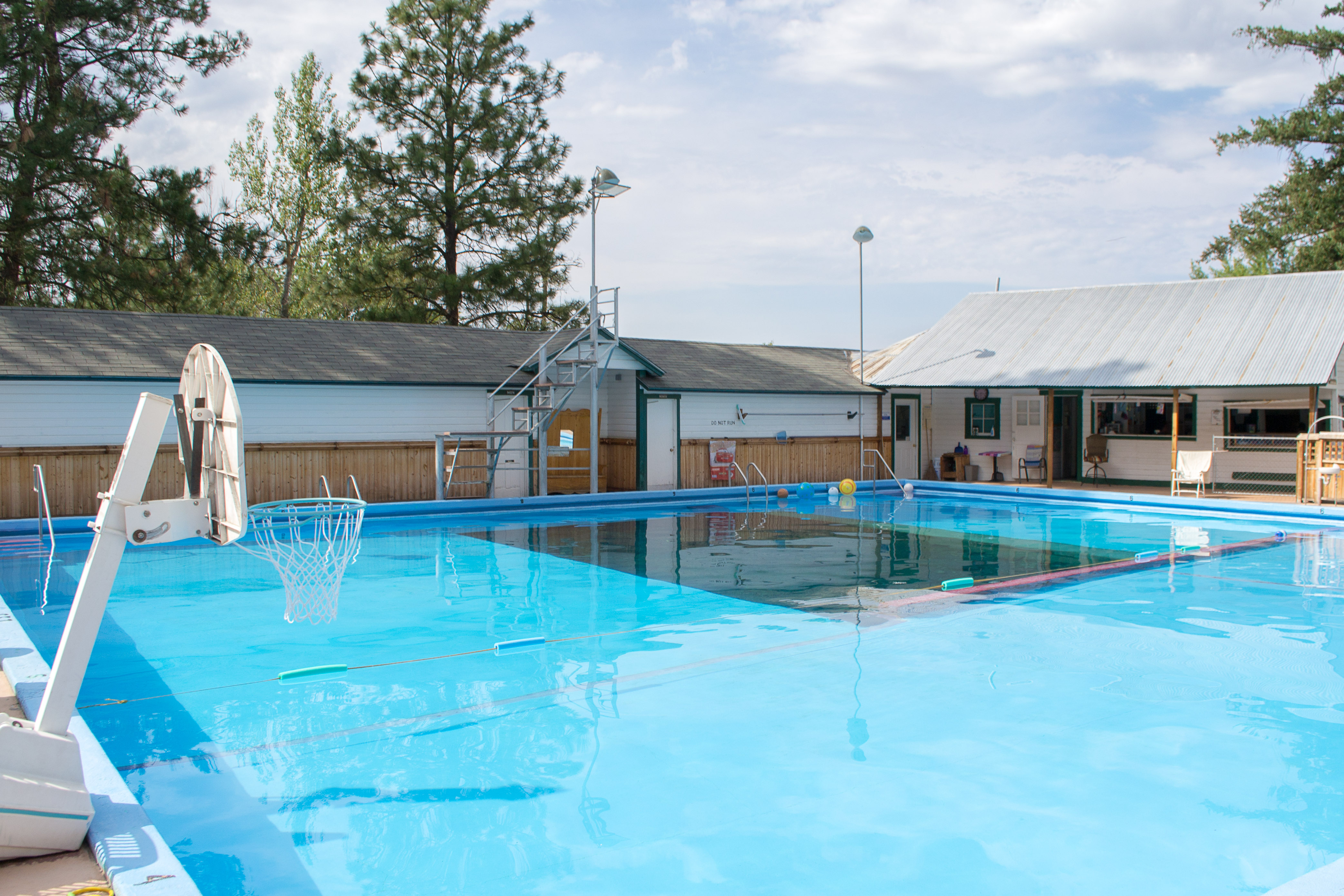 The Warm Springs Pool in Cove, Oregon